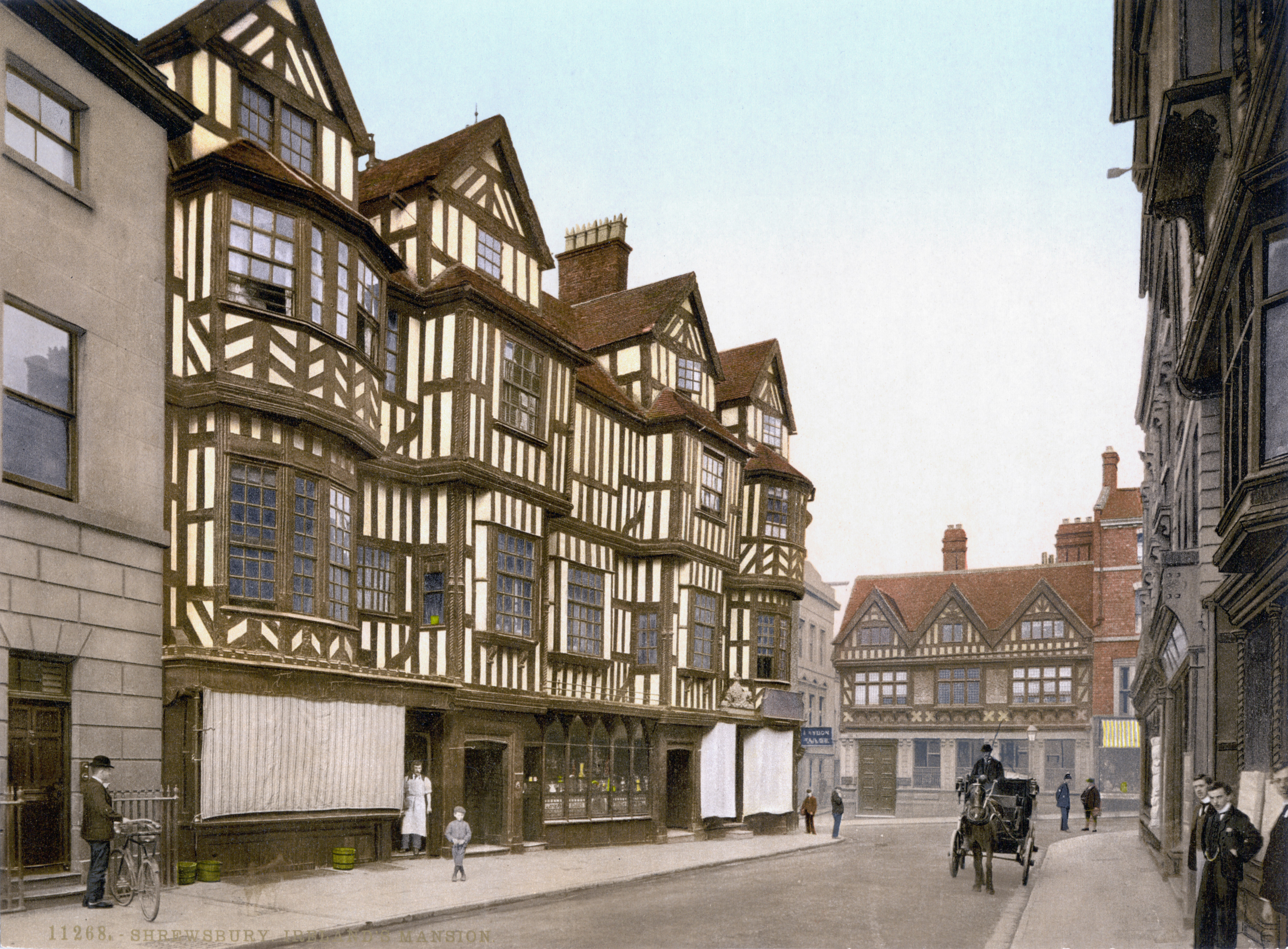 Shrewsbury, England